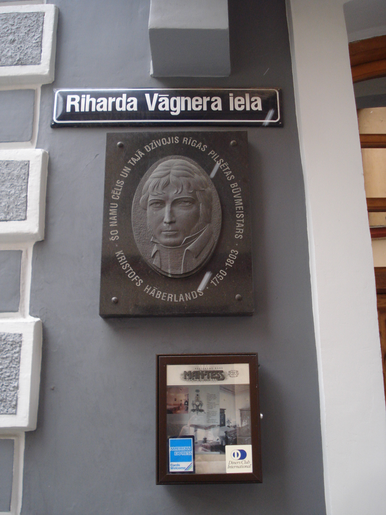 Memorial plaque of architect Christoph Haberland (1750-1803). Riga, Riharda Vāgnera Street